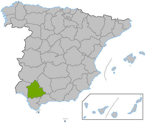 Location of the province of Seville, in Spain. Basado en: ProvPont.jpg Source: Designed by Satesclop. Original picture, designed by Sobreira.